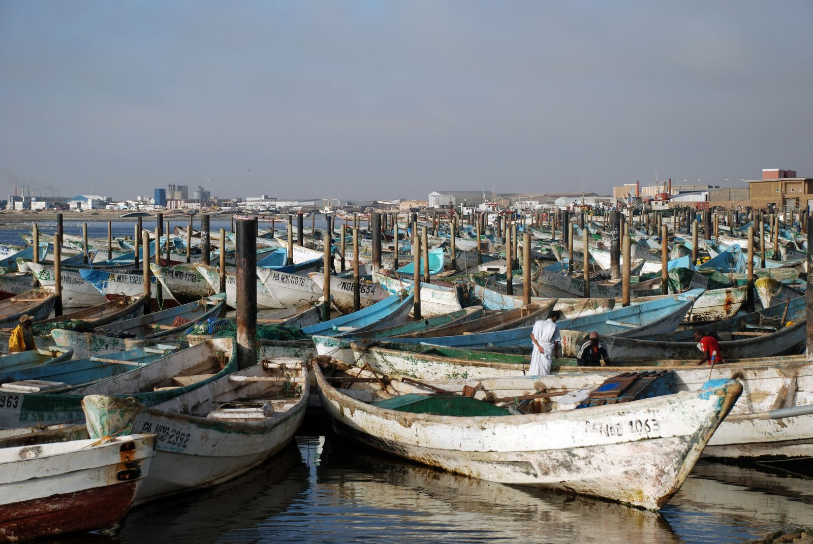 Nouadhibou, Mauritania, port artisanal